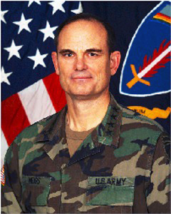 GEN Montgomery C. Meigs, Commanding General USAEUR